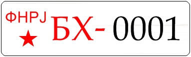 Federal People's Republic of Yugoslavia's license plate for Bosnia & Herzegovina